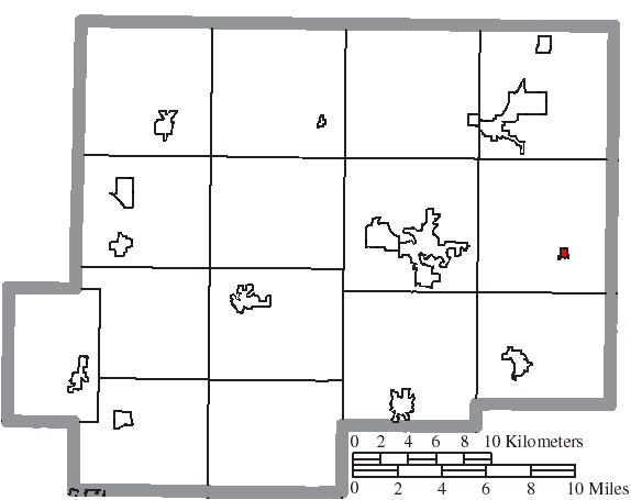 Map of the municipal and township boundaries of Putnam County, Ohio, United States, as of the 2000 census, with the location of the village of Gilboa highlighted. Township borders are shown only in unincorporated areas in order to differentiate incorporated and unincorporated areas more clearly.